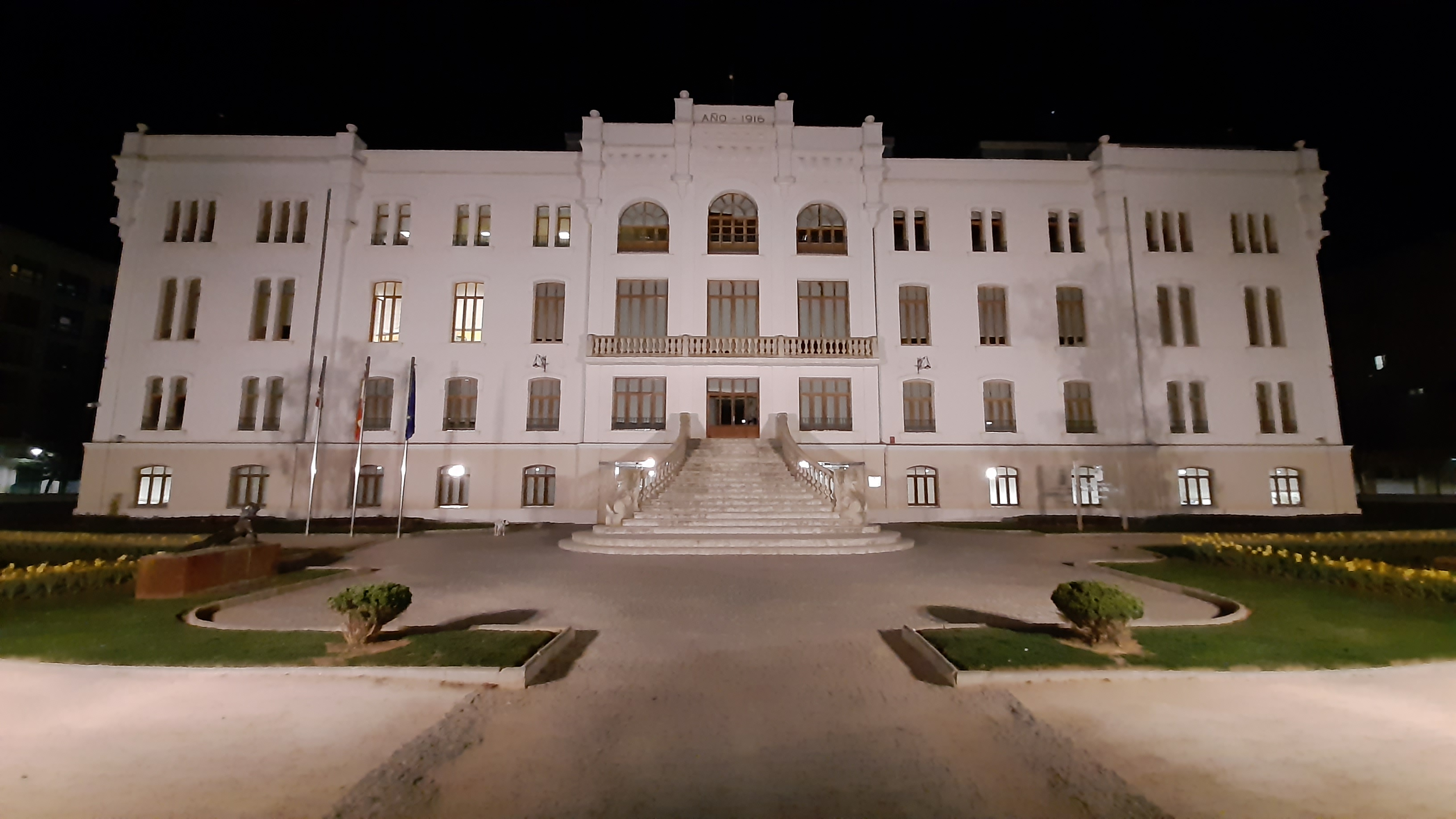 Fontecha Flour Factory in Albacete